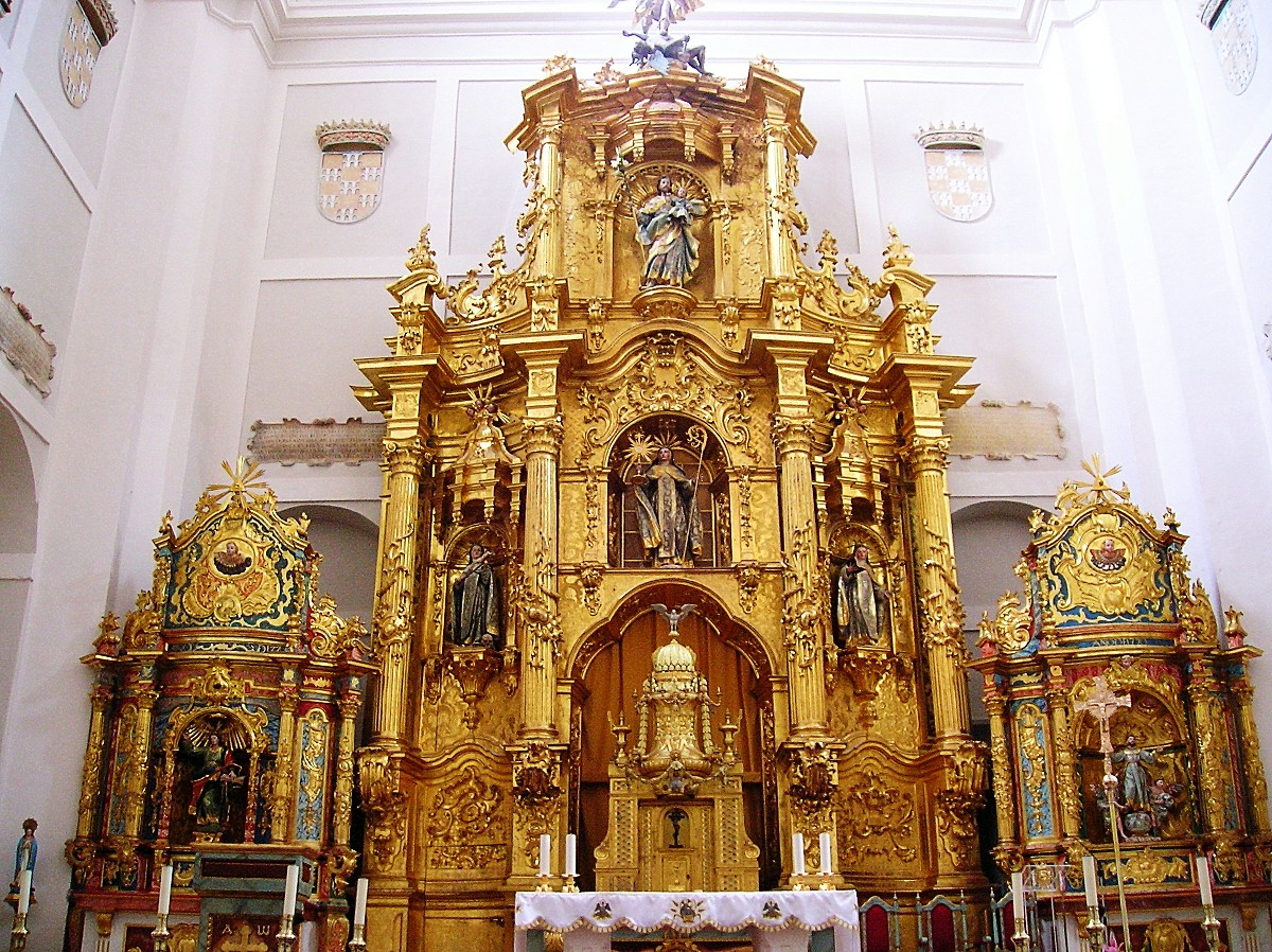 Retablo mayor barroco de la Iglesia del Monasterio de Santa Clara, en Medina de Pomar (Burgos, Castilla y León, España)